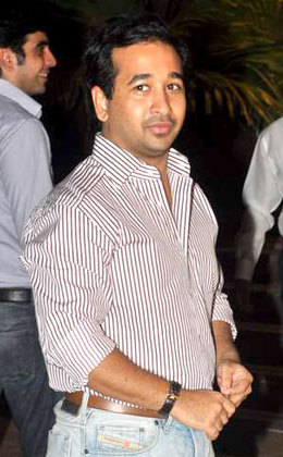 Nitesh Rane at Baba Siddique's Iftar Party.